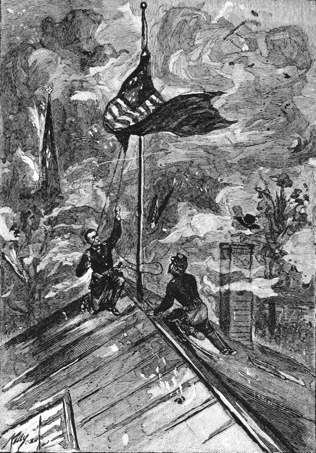 "Hoisting first real American flag over the Capitol of the captured Rebel Capital, Richmond, Monday, 3d April, 1865, by Lt.-Col. Johnston Livingston de Peyster, A.D.C."